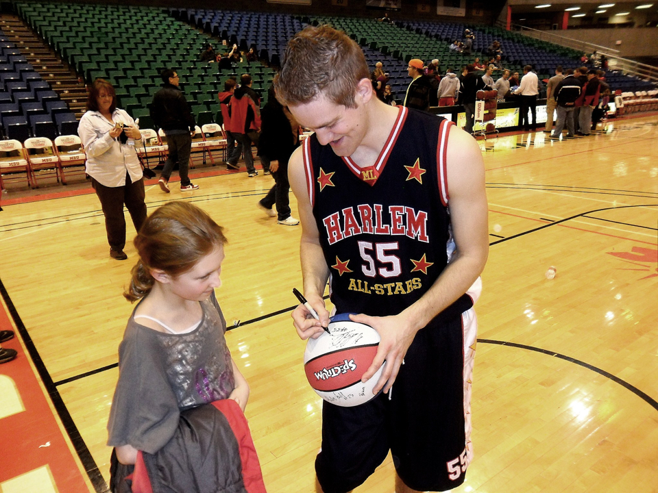 Harlem All-Star player Viktor Henriksson signs an autograph for a young fan.